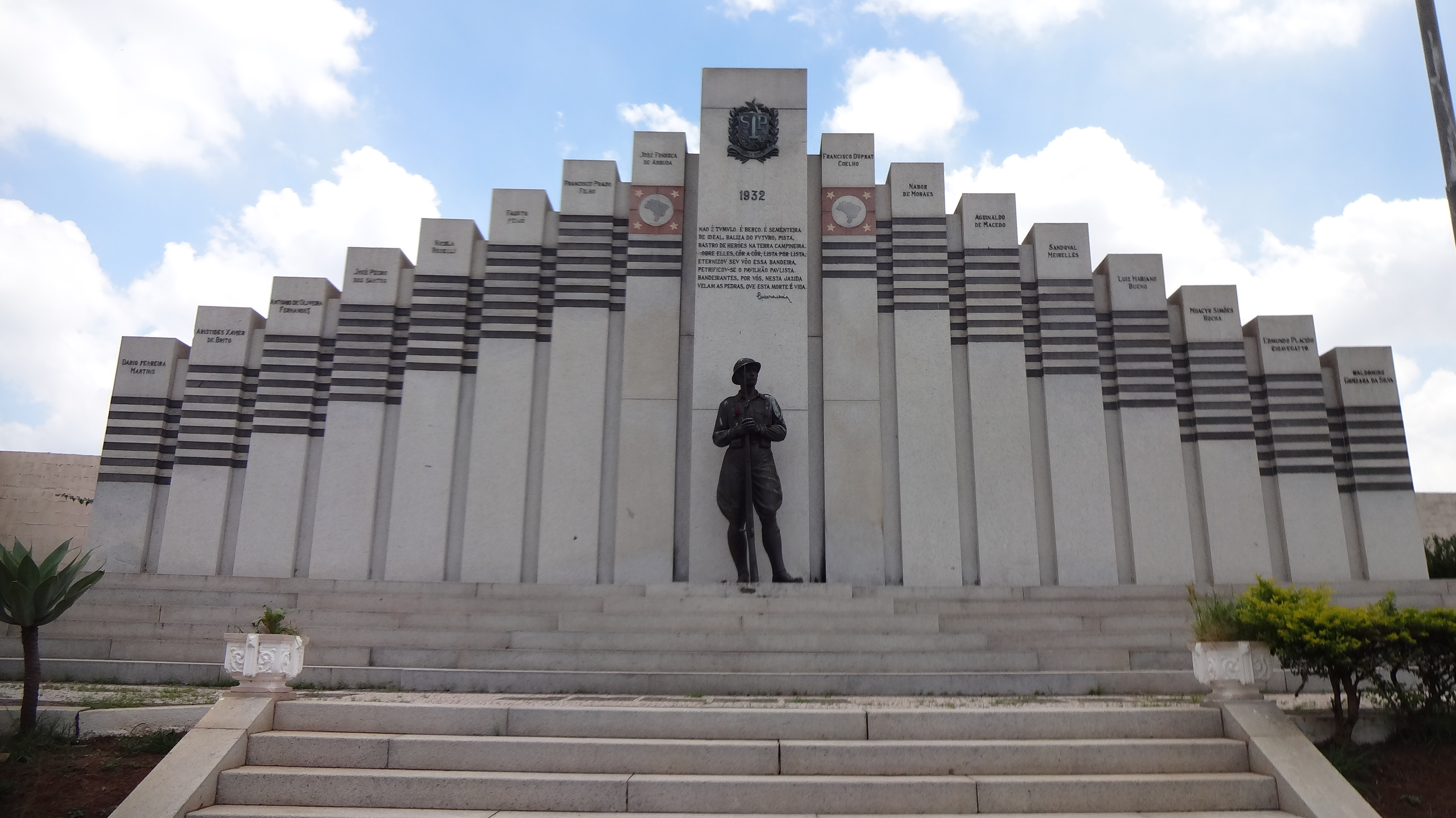 A monument to local soldiers of 1932 Constitutionalist Revolution, in Campinas, São Paulo, Brazil